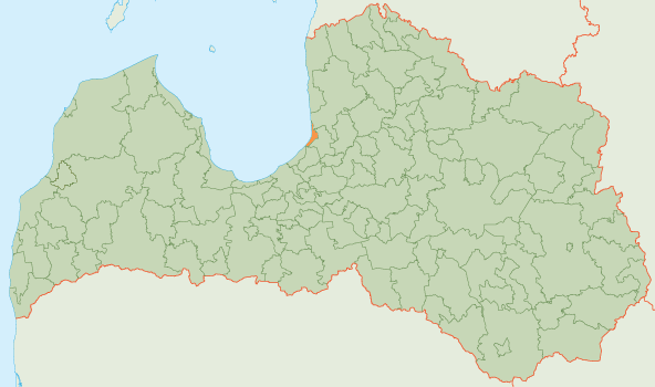 Map of Saulkrasti municipality, Latvia